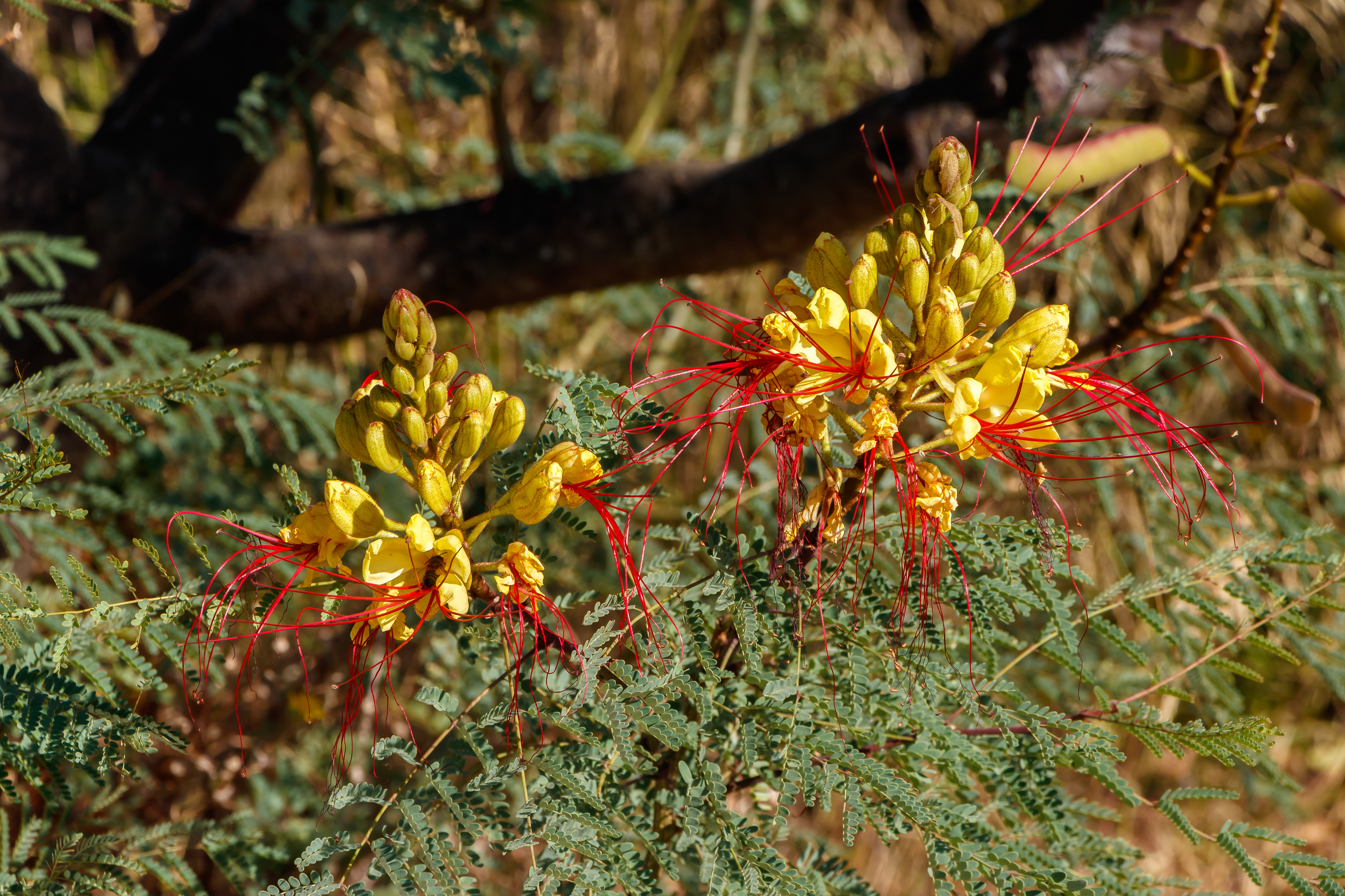 Caesalpinia gilliesii, Bird of Paradise, inflorescence; Salses-le-Château, France.